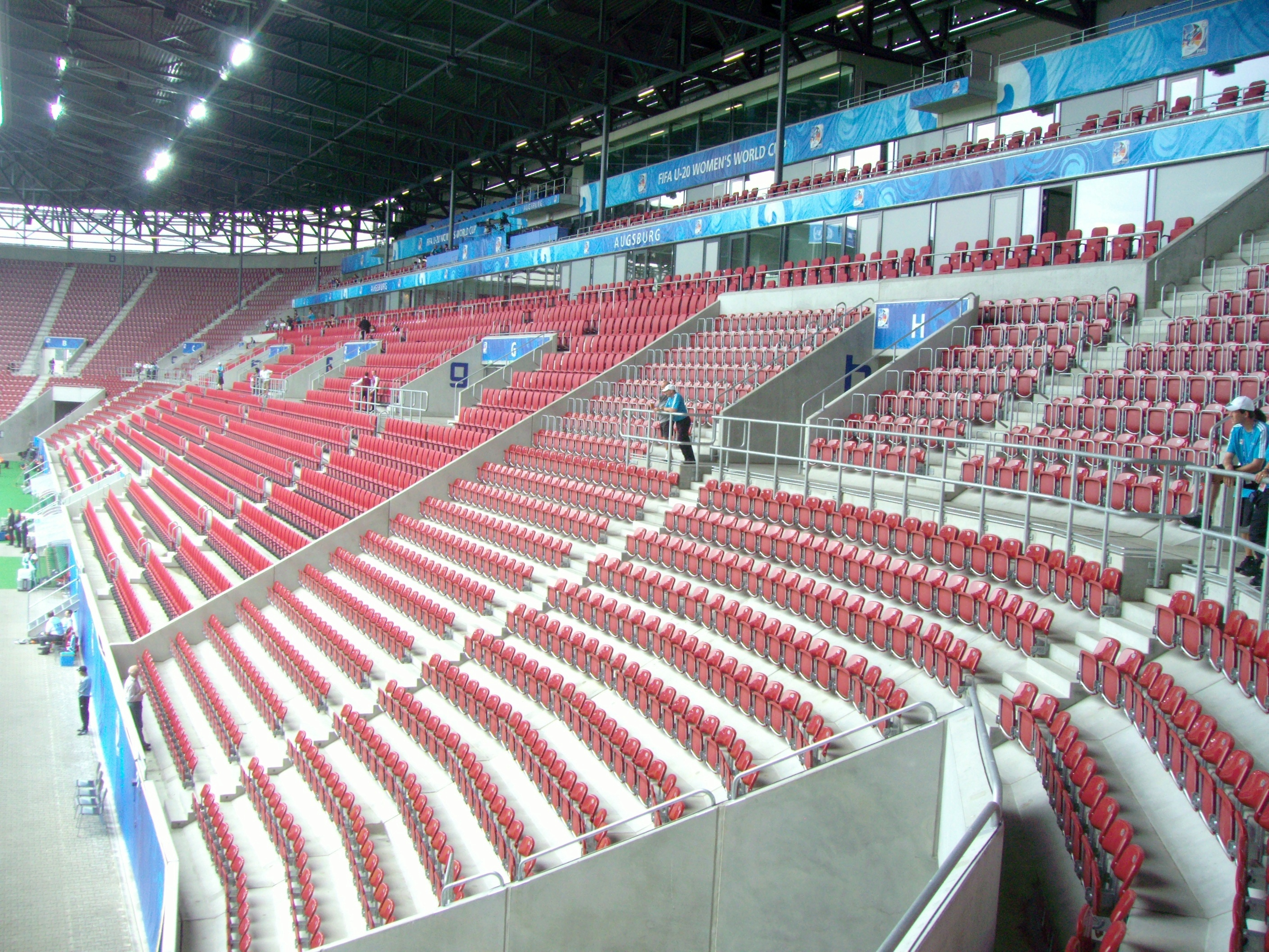 Impuls Arena as “FIFA Women's World Cup Stadium Augsburg” at 2010 FIFA U-20 Women's World Cup, Main Stand from the northeastern corner